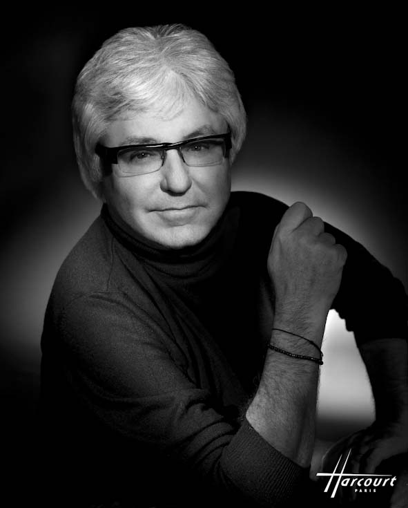 Marc Cerrone photographed by Studio Harcourt Paris